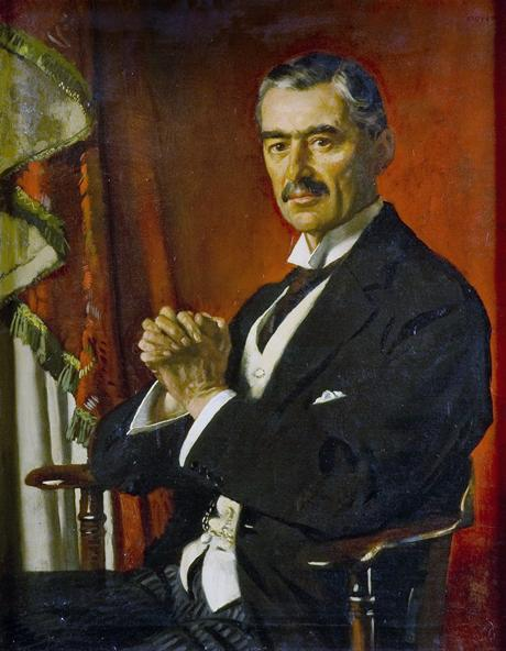 Portrait of Neville Chamberlain seated with hands clasped and looking out at the viewer. This portrait was painted before the General Election in 1929 and was featured on the cover of Time Magazine in June 1933, in which he was described as "that mighty mover behind Cabinet scenes, lean, taciturn, iron willed". After he entered Parliament in 1918, as Conservative MP for Birmingham, Ladywood, Chamberlain's Cabinet career began swiftly. He served as Postmaster General, Minister of Health and Chancellor of the Exchequer in quick succession between 1922-24. In 1933, as part of the National Government, he was once again appointed Chancellor of the Exchequer, before succeeding Stanley Baldwin as Prime Minister in 1937. With war brewing in Europe, Chamberlain sought a peaceful solution, the moreso since he had lived through the horrors of World War One. After meeting the German Chancellor, Adolf Hitler, in 1938, Chamberlain famously declared "Peace for our time", but it was to be short-lived, as Hitler occupied Prague the following year. The invasion of Poland made Chamberlain's policy of appeasement impossible, and on 3 September 1939, he declared war. Following Germany's invasion of the Netherlands, Belgium and France, he resigned in 1940, dying six months later. Sir William Orpen enjoyed a long and celebrated career. He studied at the Metropolitan School of Art, Dublin (1891-7), and the Slade School of Art, London (1897-9). He was appointed official British war artist in World War One and in 1919 he was appointed official artist to the British Peace Delegation, from which he produced the large and very traditional group portrait, The Signing of Peace in the Hall of Mirrors, Versailles, 28th June 1919. Orpen also painted politicians, financiers and industrialists of the time, including Churchill and Lloyd-George. Each portrait imbued with the warmth and personality of the sitter.